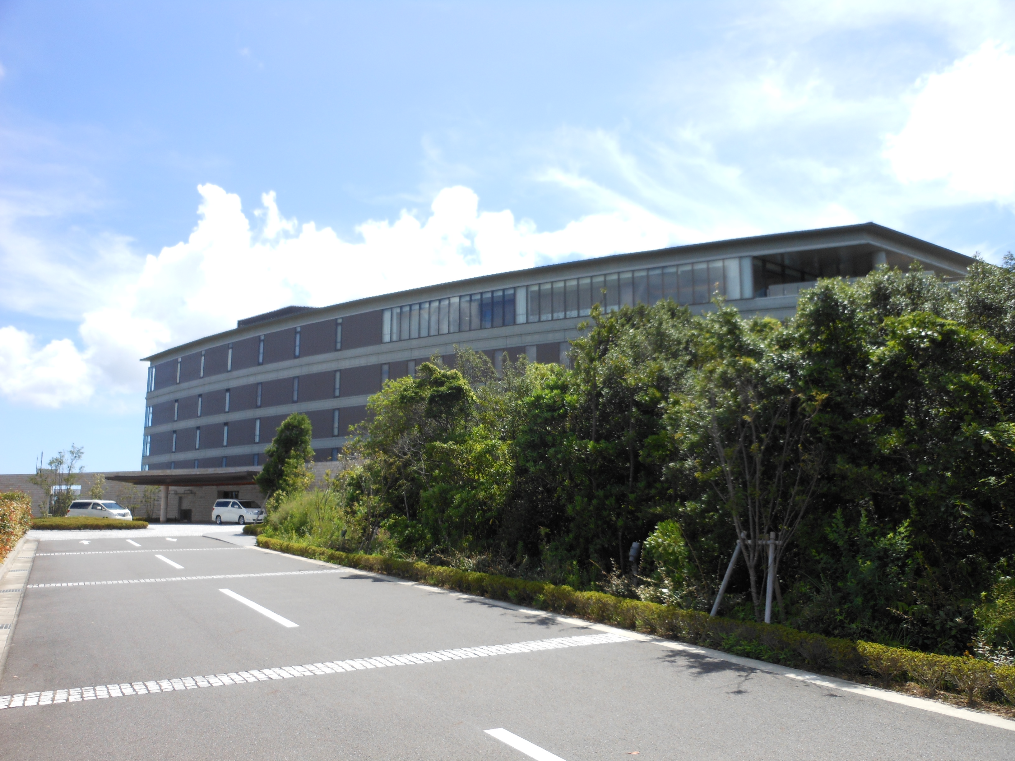 This is a hotel in Japan.